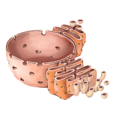 Endoplasmic reticulum